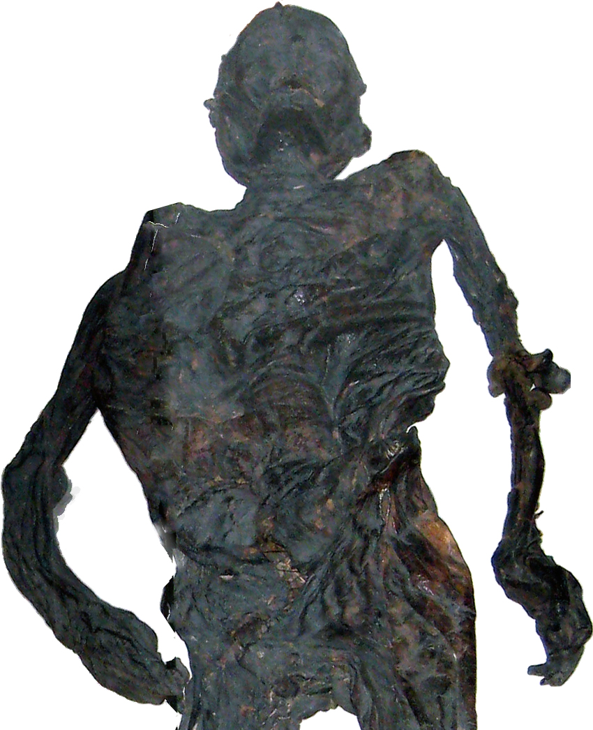 The naturally preserved body of an iron age woman found in a bog near Vejle, Denmark. Now being kept at St. Nicolai church. Picture manipulated for better visibility.